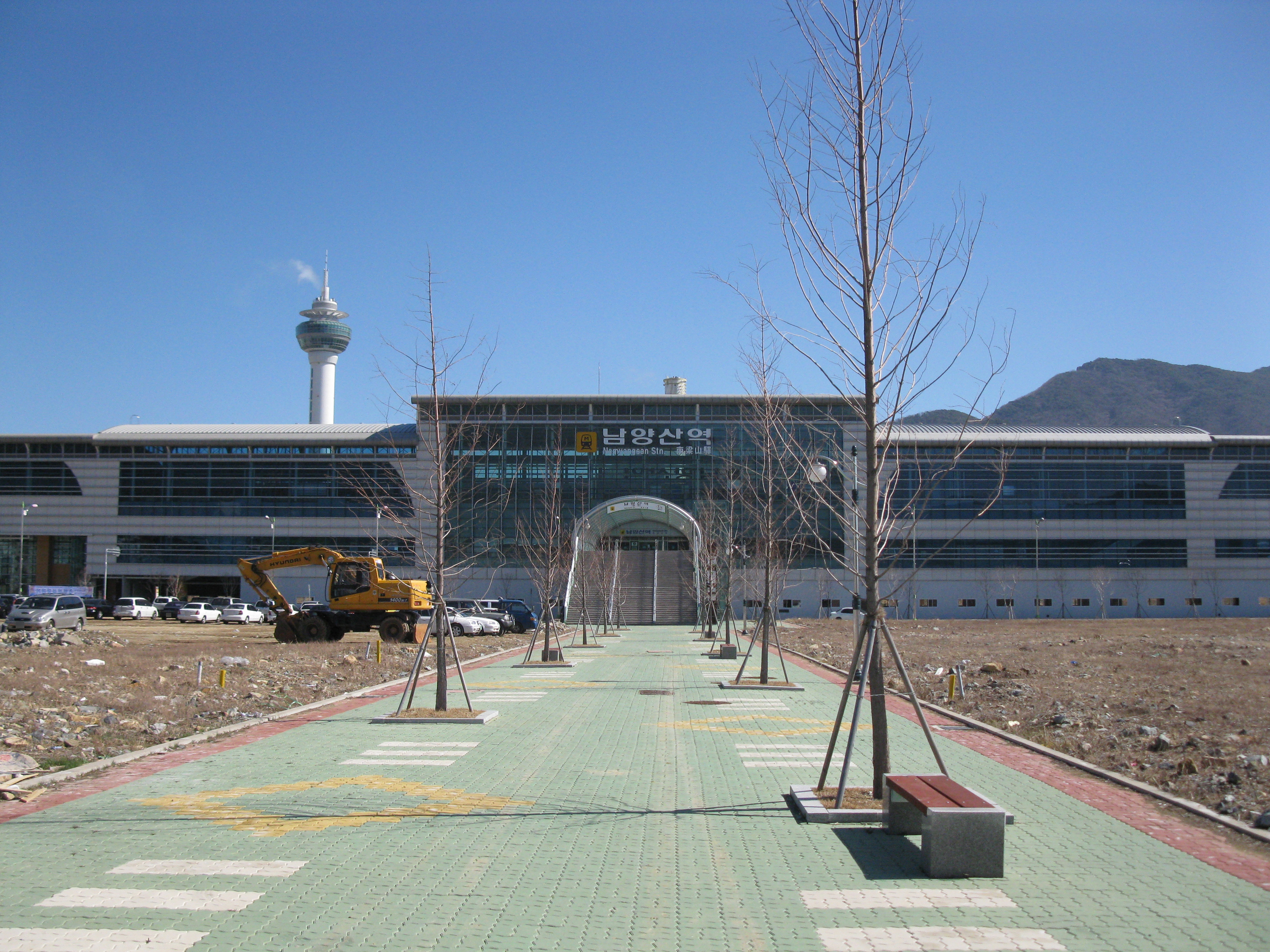 The building of Namyangsan Station, Busan Subway Line 2